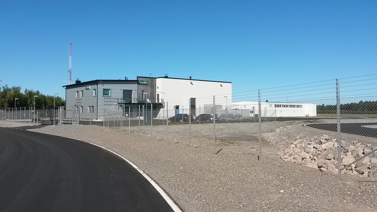 Premises of Finnhems at Turku Airport